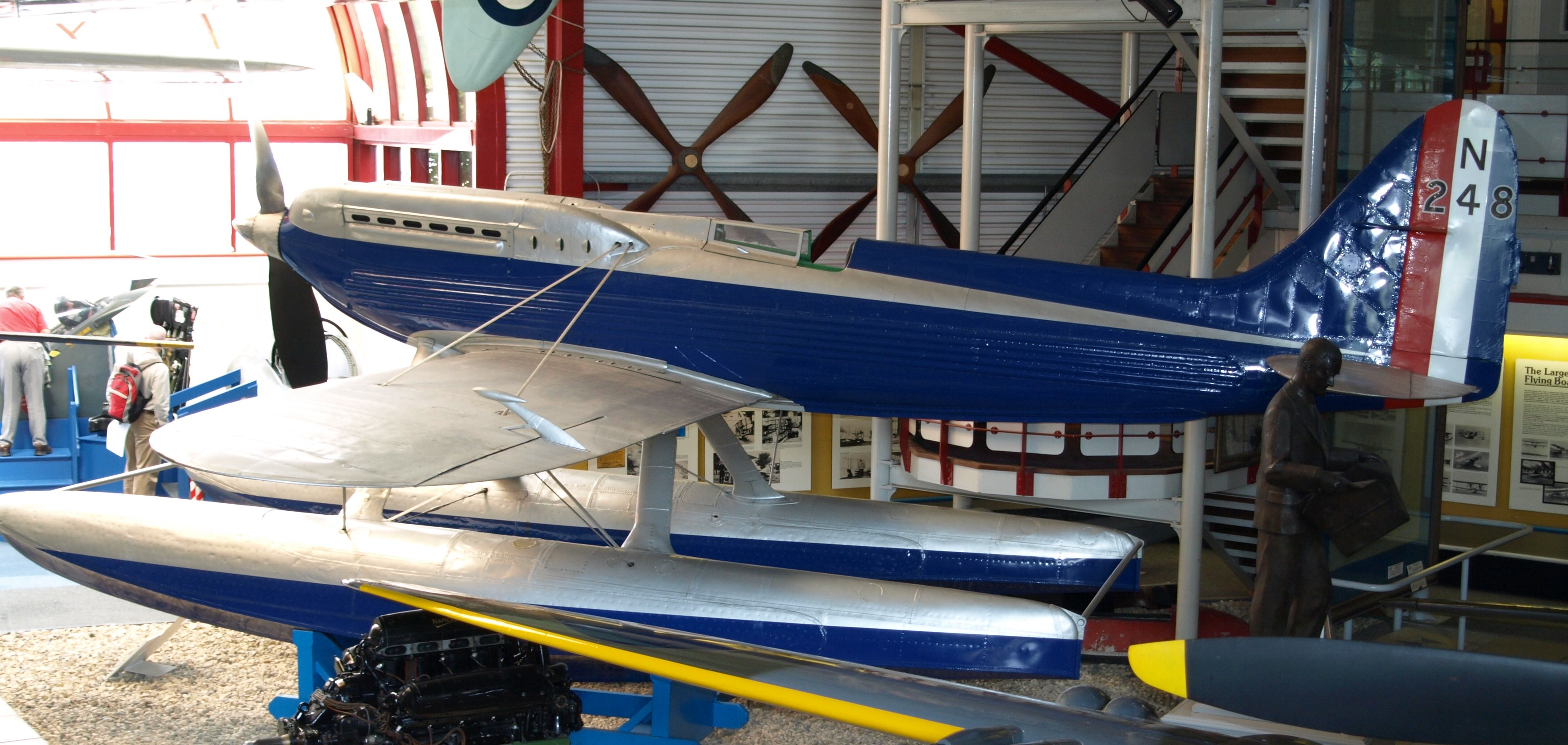 Supermarine S.6A, N248, Schneider Trophy seaplane on display at the Solent Sky museum.